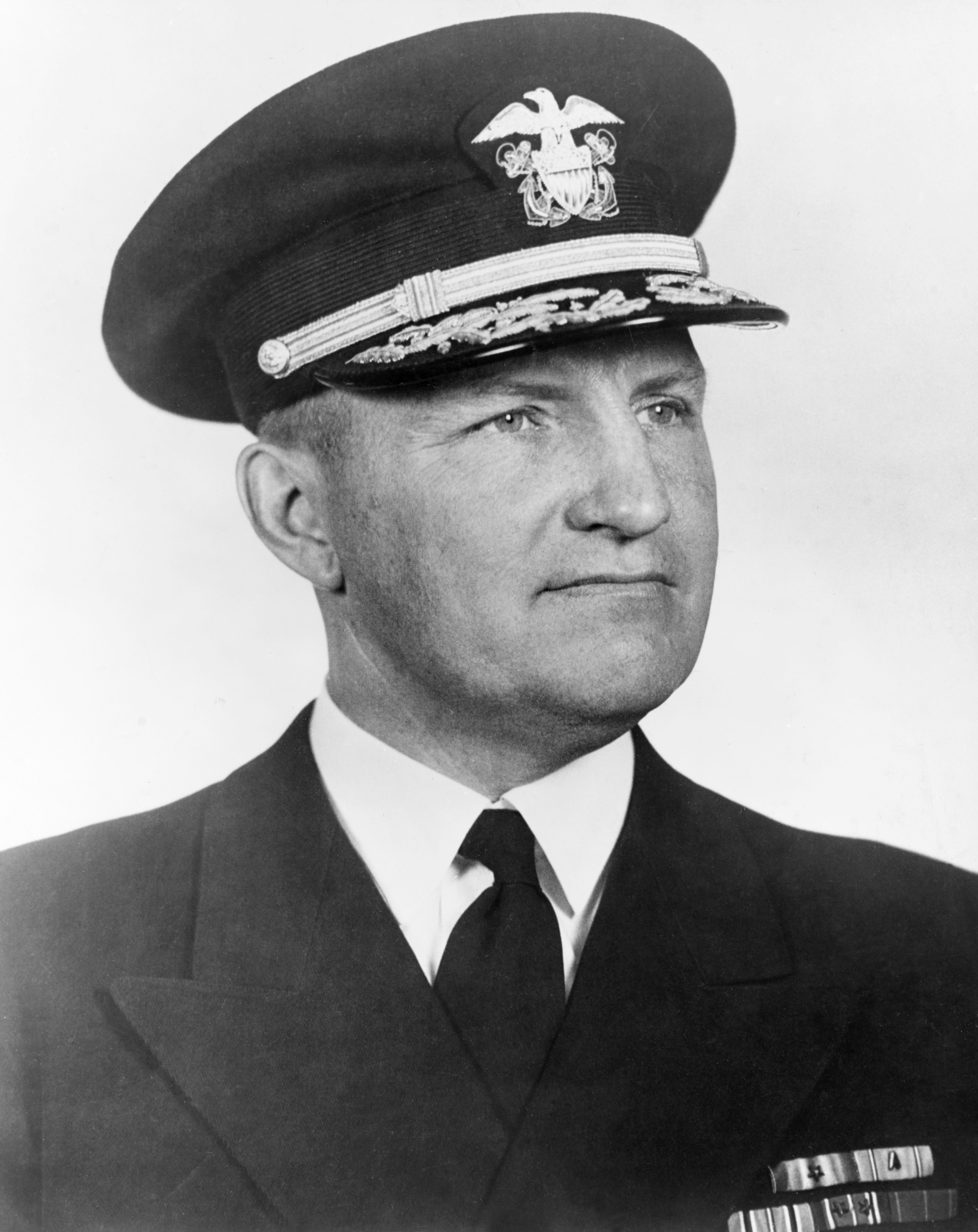 RADM Don Pardee Moon, USN - WWI and WWII